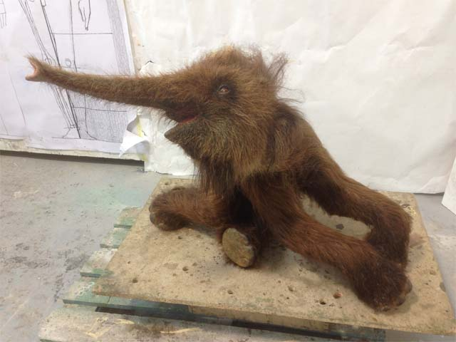 Dima baby mammoth model at Naturkundemuseum Stuttgart, by